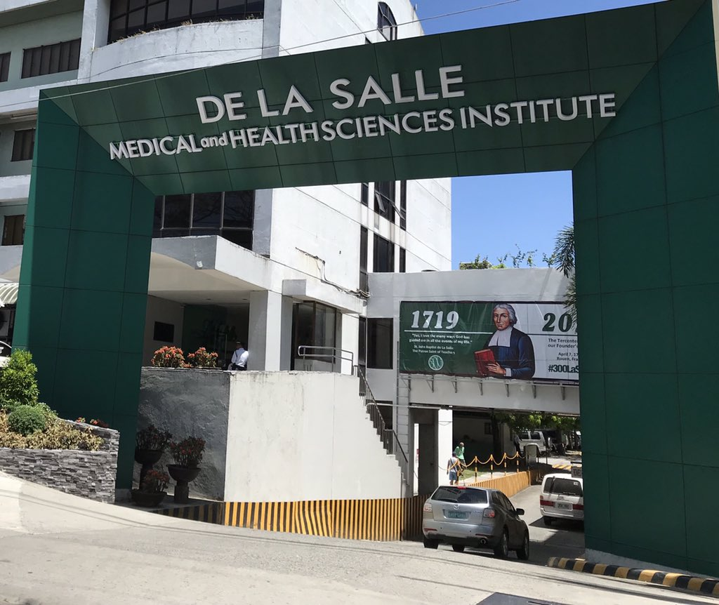 DLSMHSI's welcoming arch located between the hospital and research center